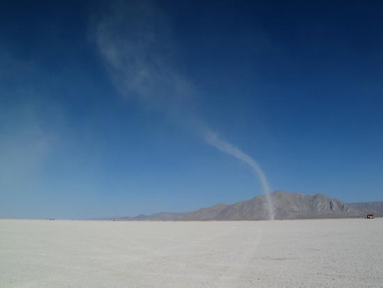 Tiny dust devil on the playa of Black Rock City at Burning Man 2005.